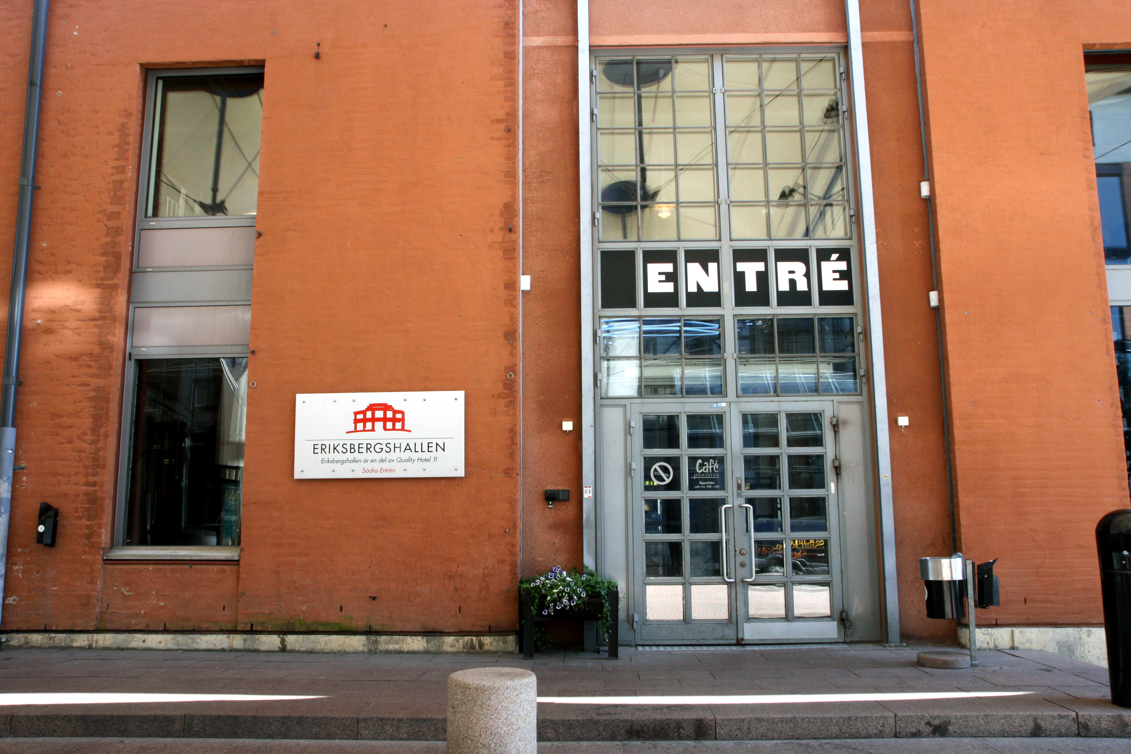 The entrance of Eriksbergshallen, a venue in Gothenburg, Sweden